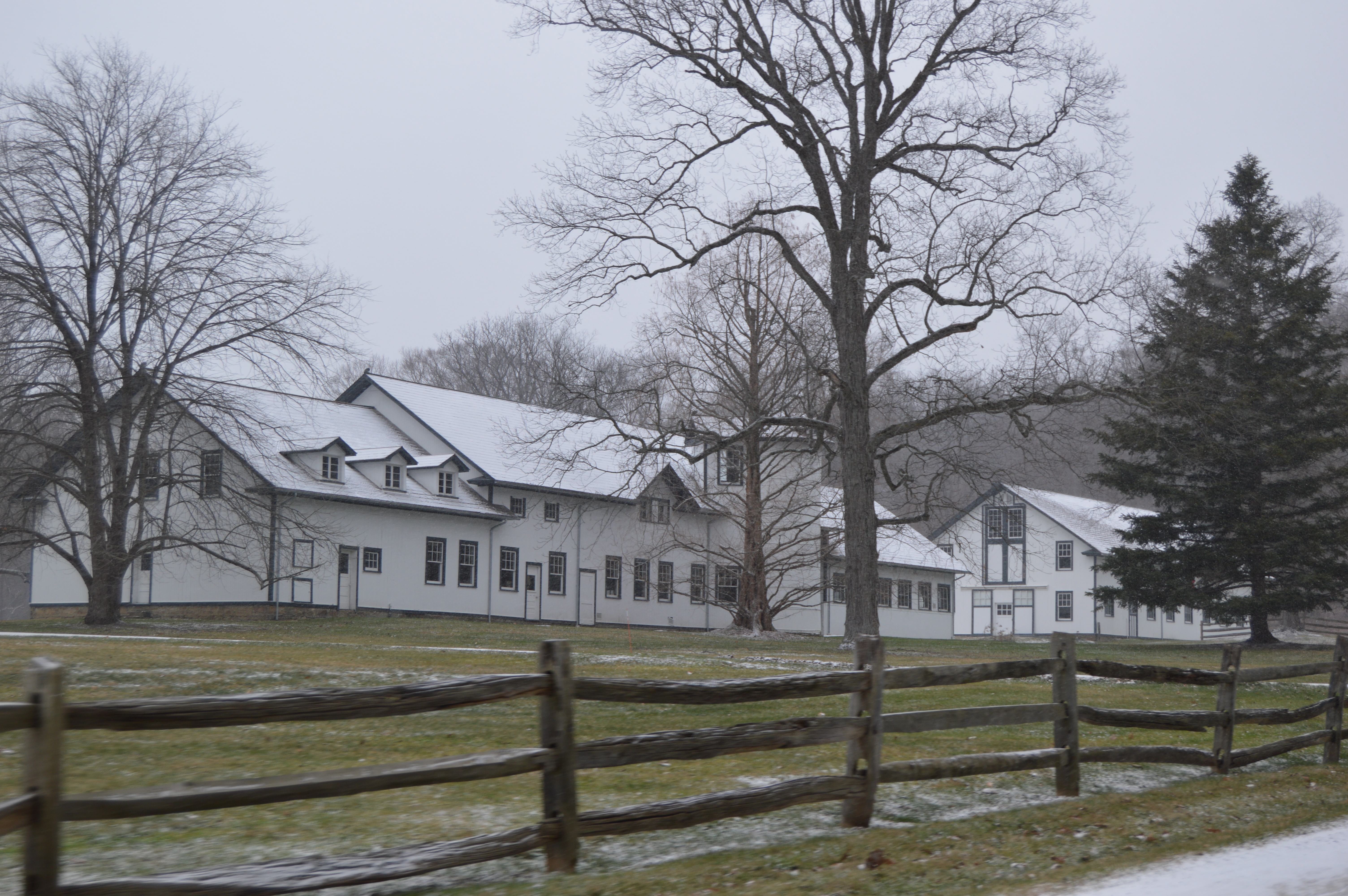 Buildings at Halfred Farms, the former estate of Windsor T. White, located on Shaker Boulevard, north of Chagrin River Road, in Hunting Valley, Ohio, United States.